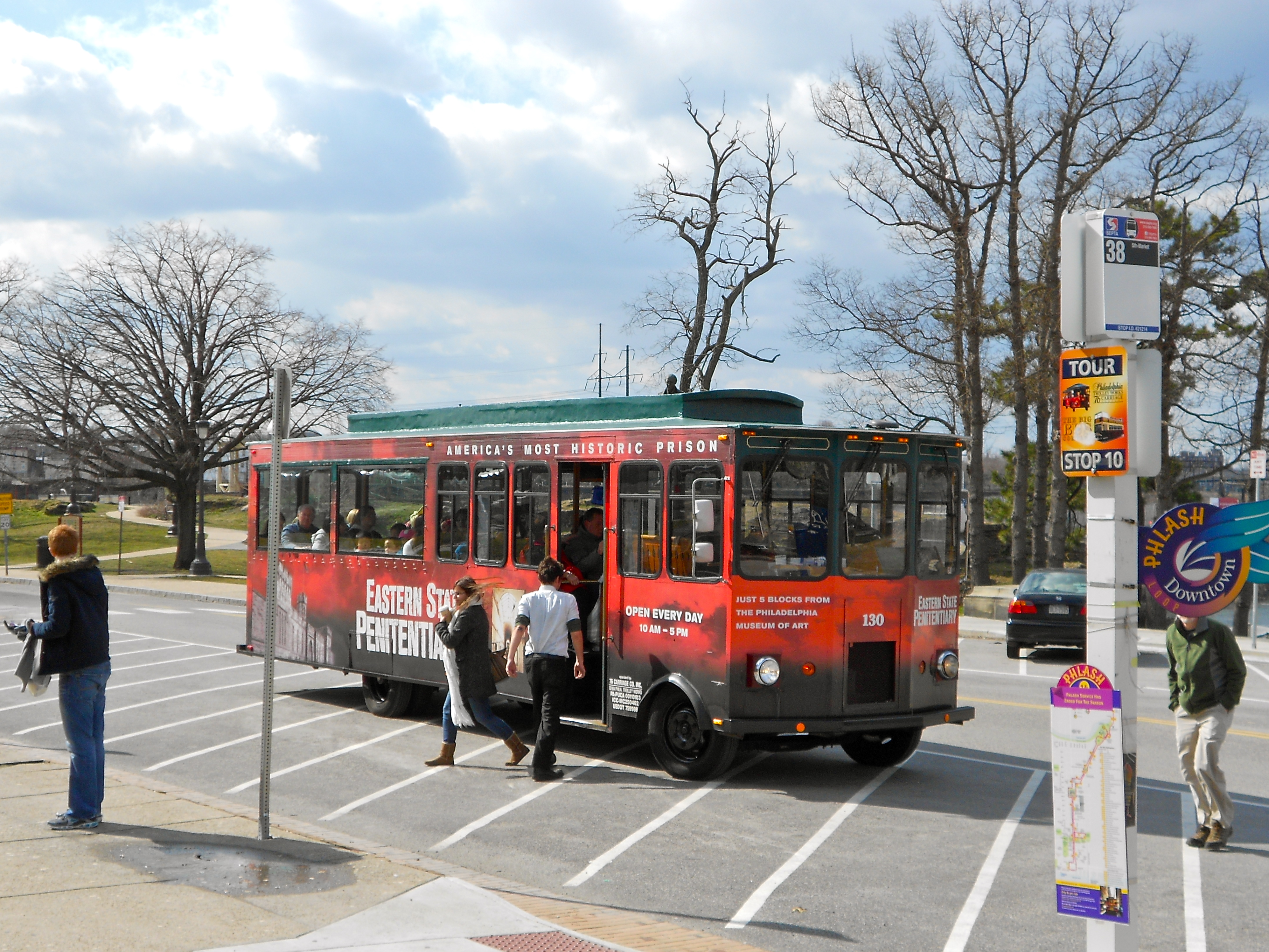 Tourist bus, the Philly Phlash, in back of the Philadelphia Museum of Art